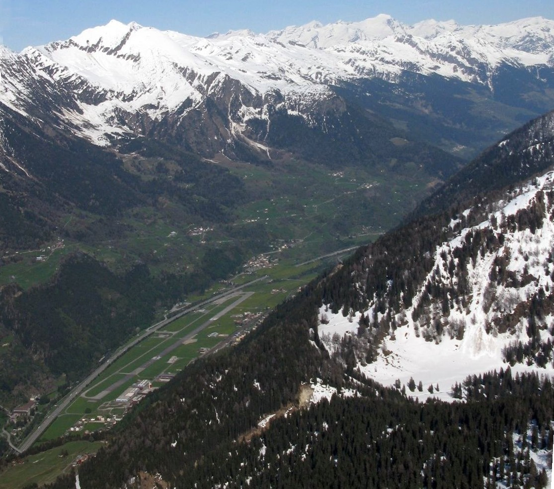 Ambri Airport seen from above. For more information, see the Wikipedia article Ambri Airport.